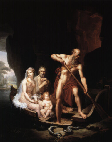 Passage on the river Styx